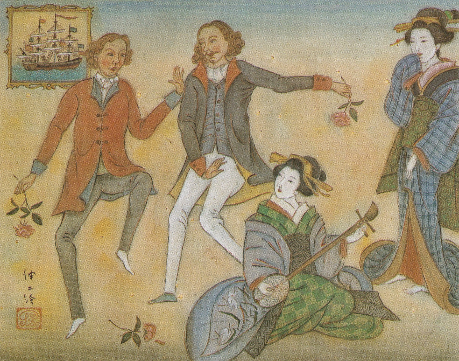 Kayukawa Shinji celebrating Dutch in 17th century Japan